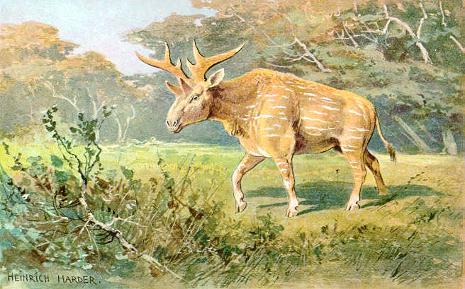 This reprodaction of a painting shows a Sivatherium of an undetermined species and was made to illustrate one card of a set of 30 collector cards from "Tiere der Urwelt" (Animals of the Prehistoric World). From the series Ia. The set was inscribed 1916.